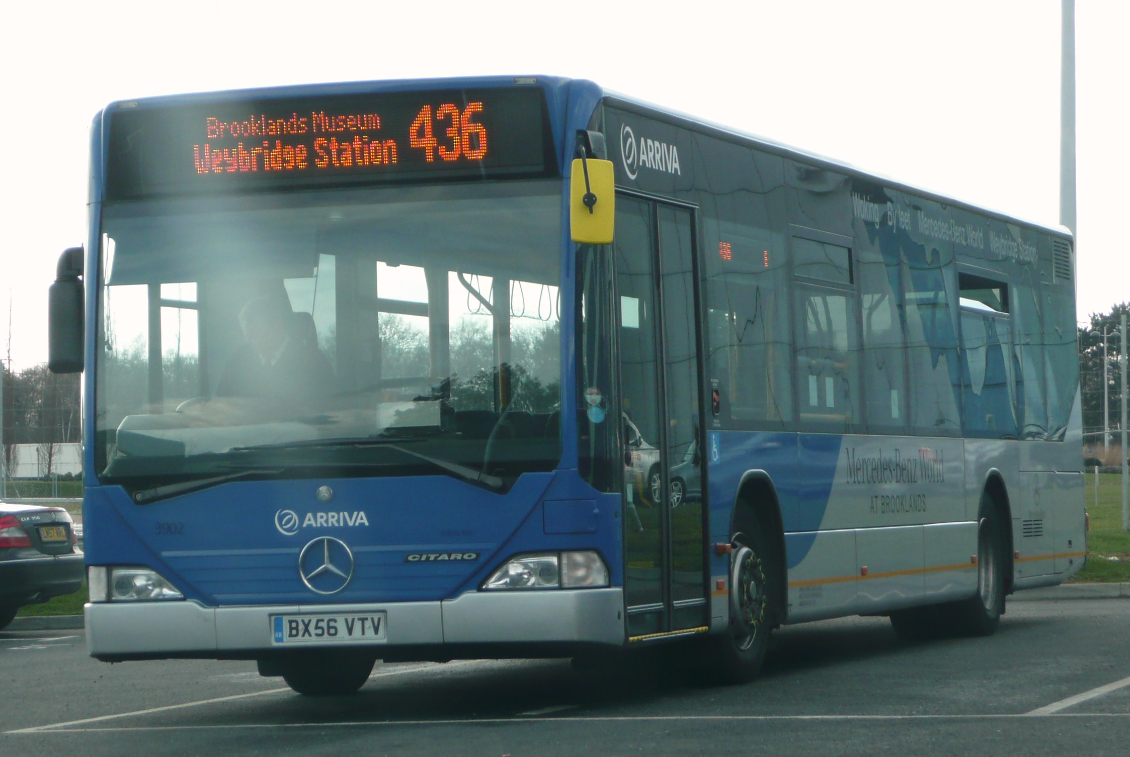 Arriva Guildford & West Surrey's 3902 (BX56 VTV), a Mercedes-Benz O530 Citaro, at Mercedes-Benz World on route 436.